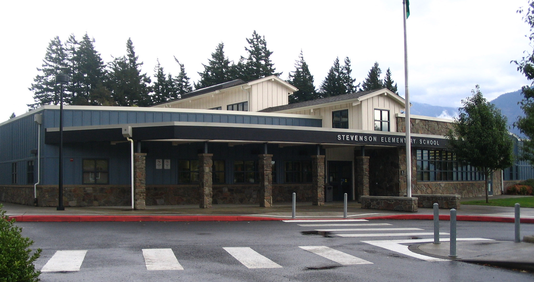 Photo of main entrance of Stevenson Elementary School in Stevenson, Washington, USA.